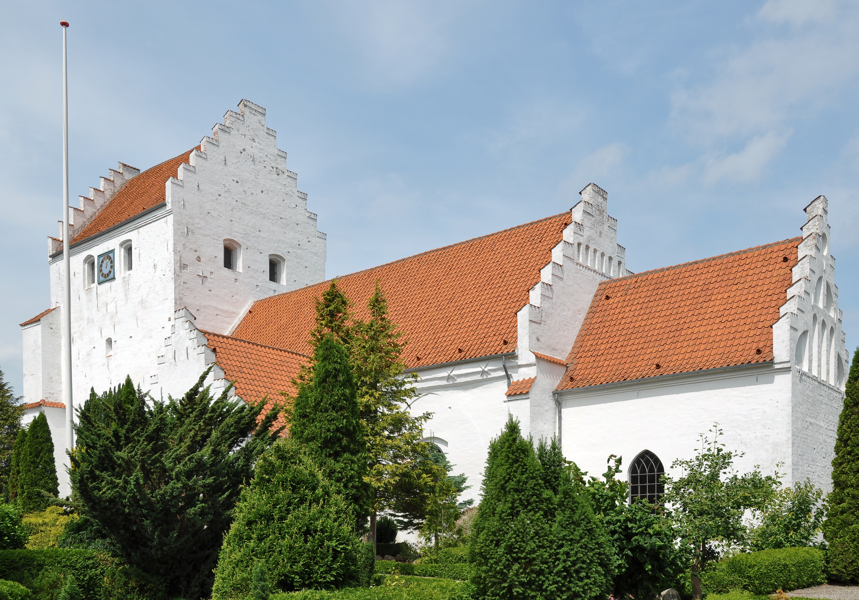 Tranebjerg Church (Samsø Municipality, Denmark).